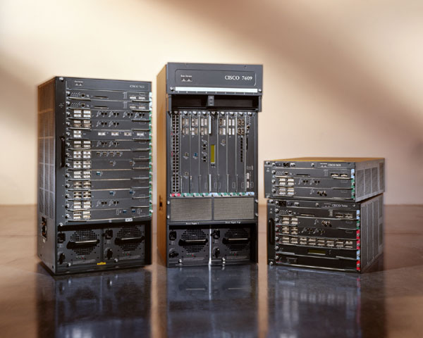 Photo supplied by Cisco Systems Inc. of a 7600 Series Router.